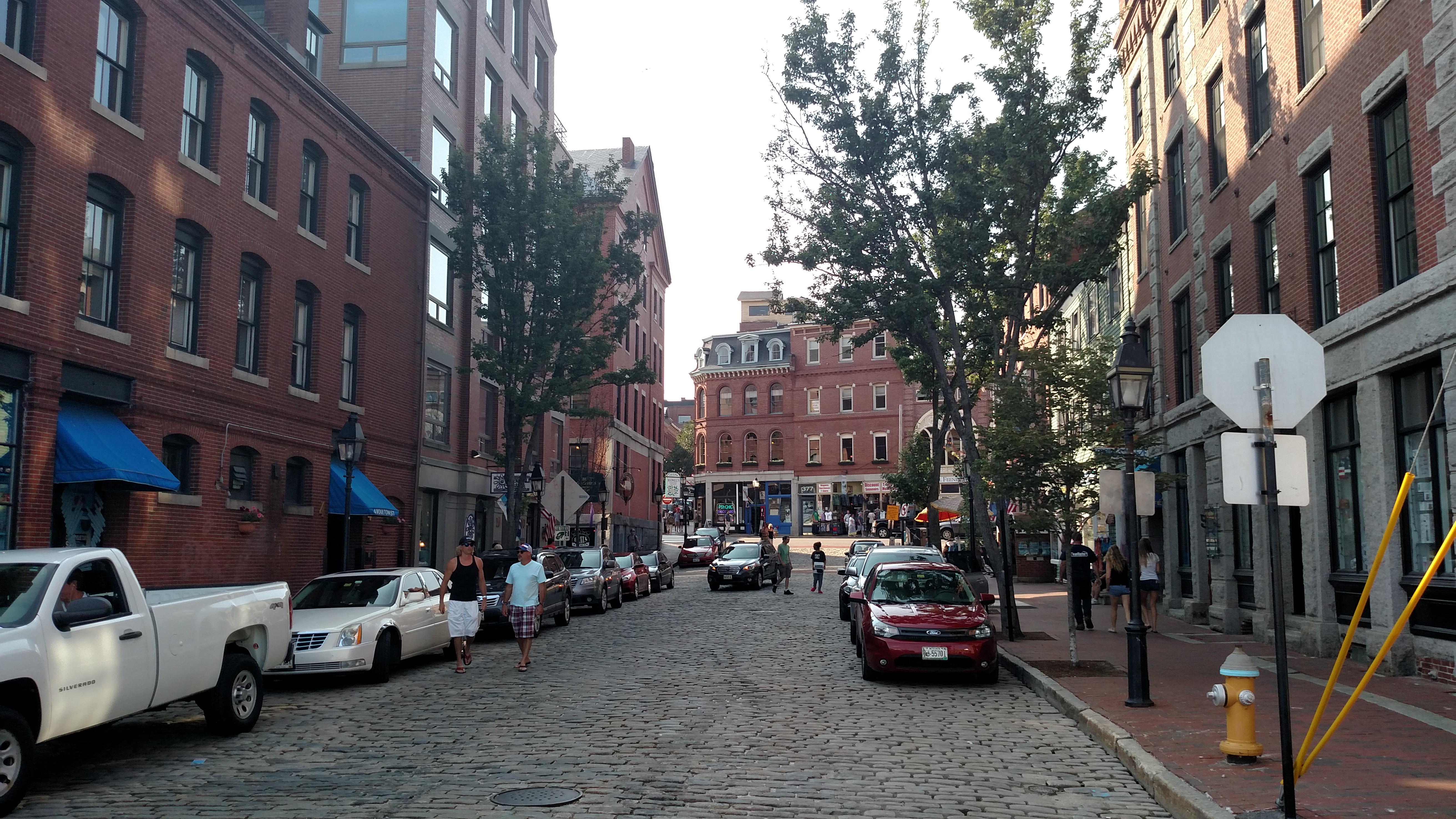 Moulton Street in the Old Port, Portland Maine.